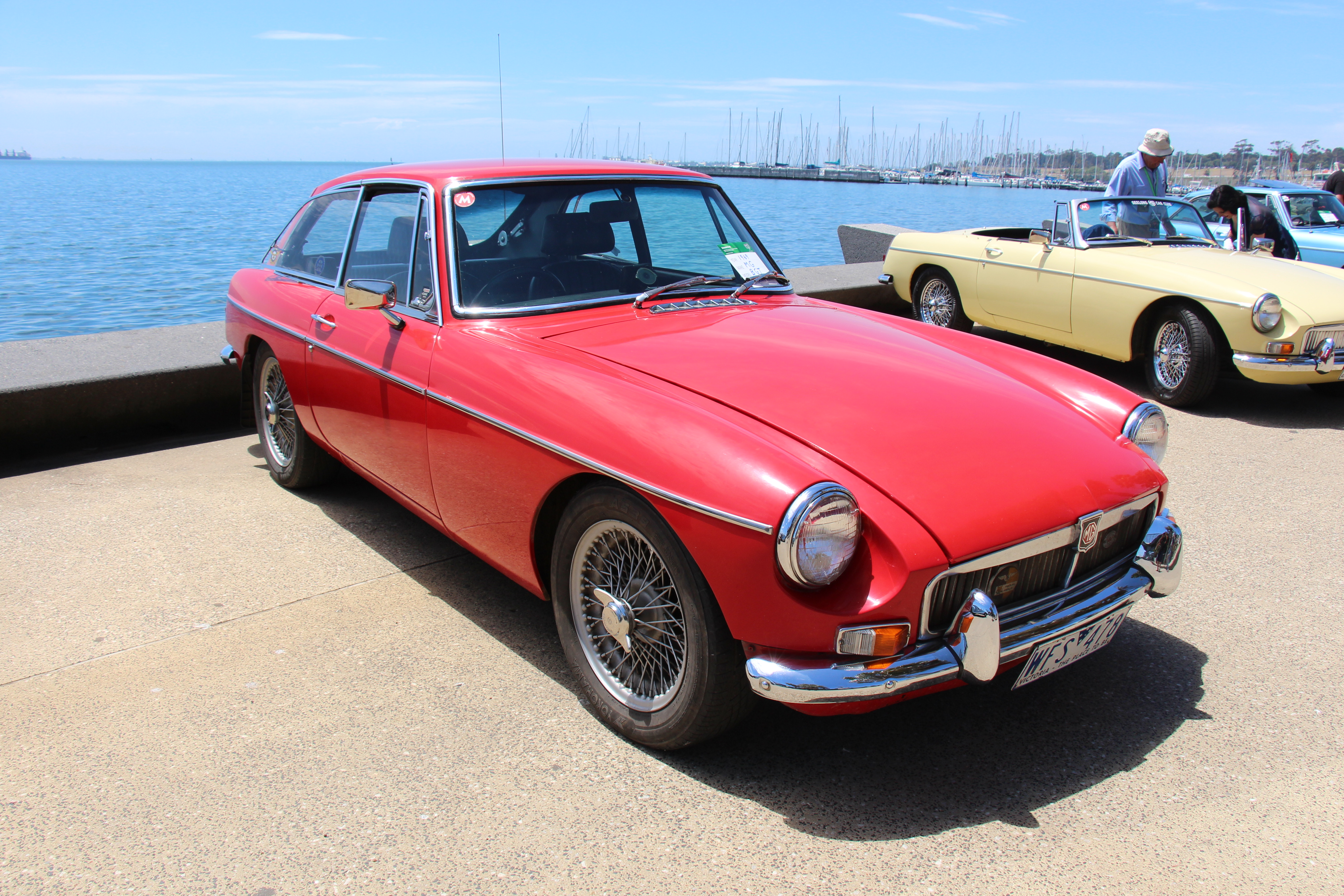 In 1962 the MGA was replaced by the MGB, getting a redesigned lighter body and chassis giving it more space. It was also a better handling car. In England the Mk I was made from 1962-67, also assembled in Australia from 1963-72. Originally only available as a Roadster Engine; 1798cc 4 cyl with twin SUs, 1965 MGB GT Hardtop 2+2 Coupe available with hatch back 1967 Mk II and the 6 cyl MGC available 145hp 2912cc Austin 1970 saw split rear bumpers with the number-plate in between 1971 saw a new front grille, recessed, in black aluminium. 1972 Mk III and the more traditional-looking polished grille returned with a black honeycomb insert. 1973 MGB GT V8 available 137hp 3528cc aluminium Rover V8 1974 A new, steel-reinforced black rubber bumper at the front incorporated the grille area and a matching rear bumper